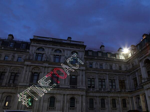 The Foreign & Commonwealth Office in London lit up to mark the start of the Global Summit to End Sexual Violence in Conflict, which is taking place from 10-13 June 2014 #TimeToAct